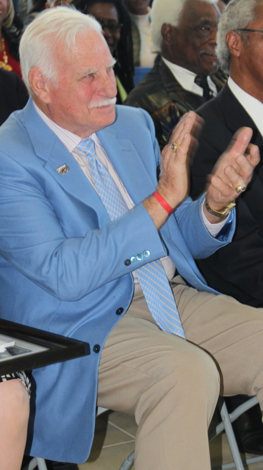 Howard Schnellenberger at grand opening of Carrfour's Dr. Barbara Carey-Shuler Manor community in Liberty City (Miami, Florida), April 24, 2012.